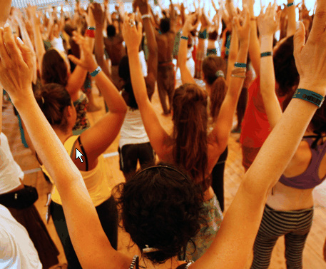 Dance Workshop at Andanças